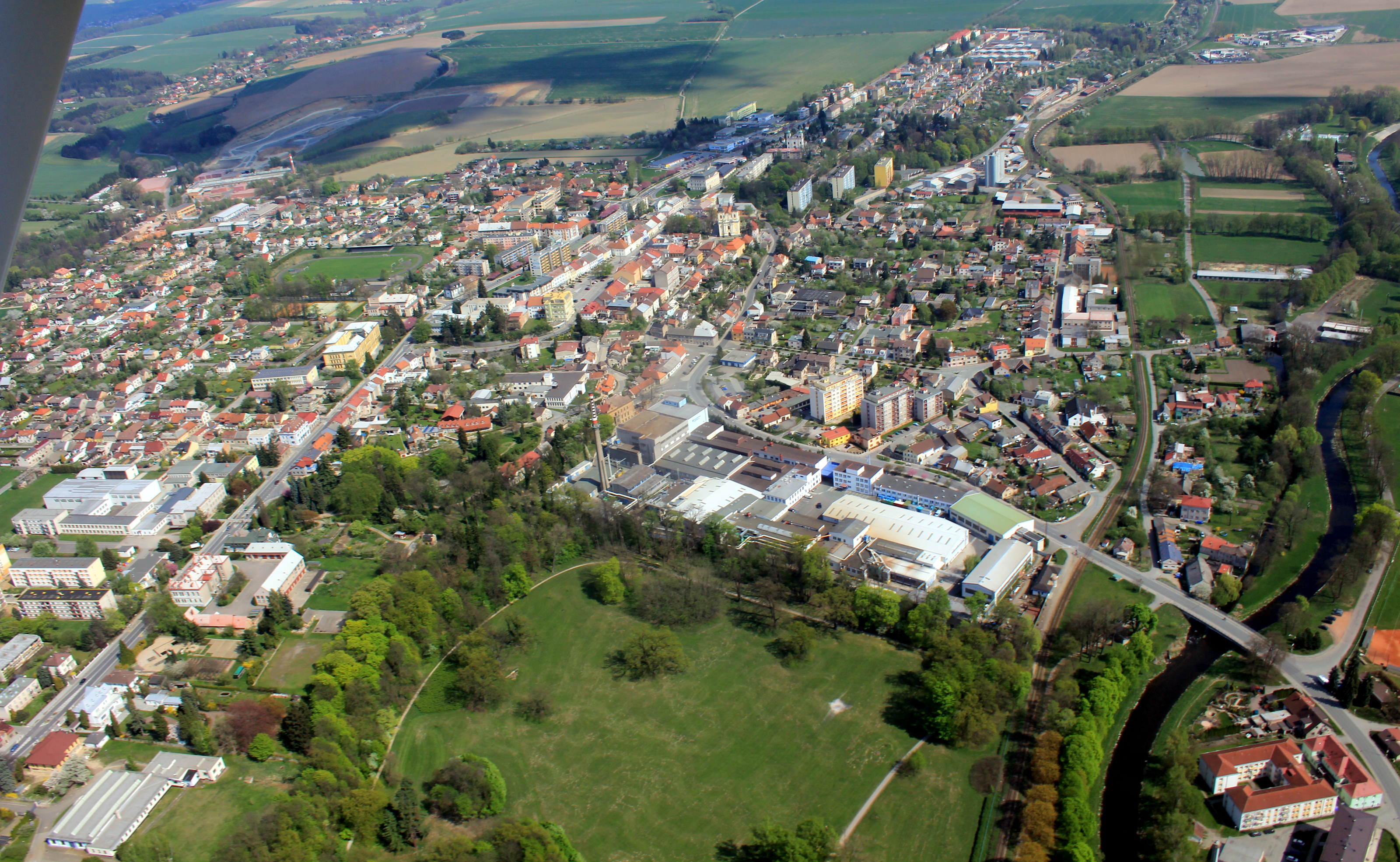 Small town Kostelec nad Orlicí from air, eastern Bohemia, Czech Republic